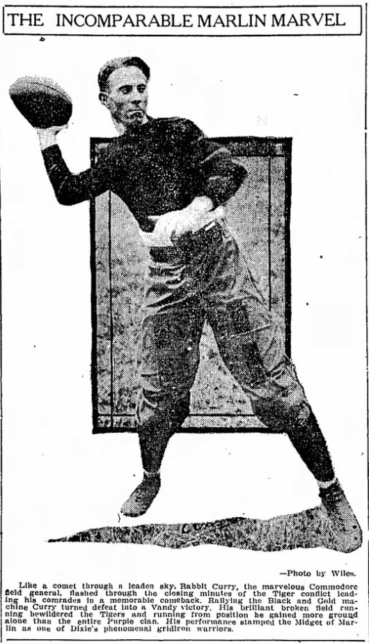 Vanderbilt quarterback Irby Curry throwing a forward pass